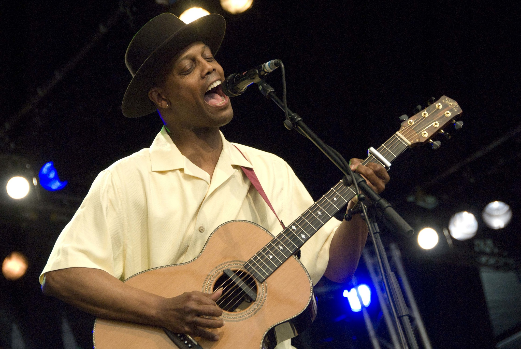 Part of a commission to provide BBC Radio 2 with photographs for the Cambridge Folk Festival website.